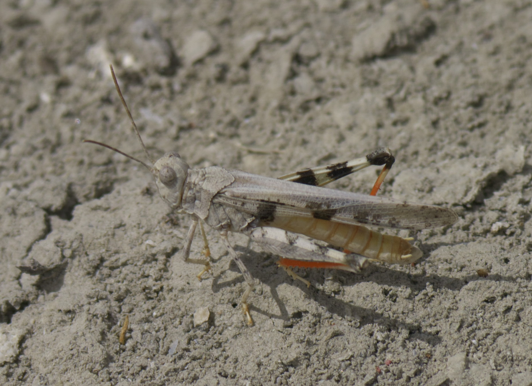 Conozoa sulcifrons, Groove-headed Grasshopper, male, ID Confidence: 98